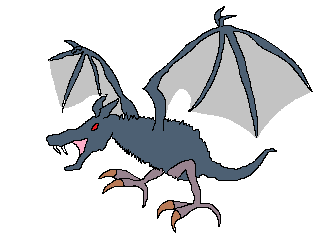 Drawing of Ahool, showing the commonly reported grey fur